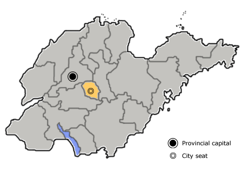 The prefecture-level city of Laiwu is highlighted on this map of Shandong province, People's Republic of China.